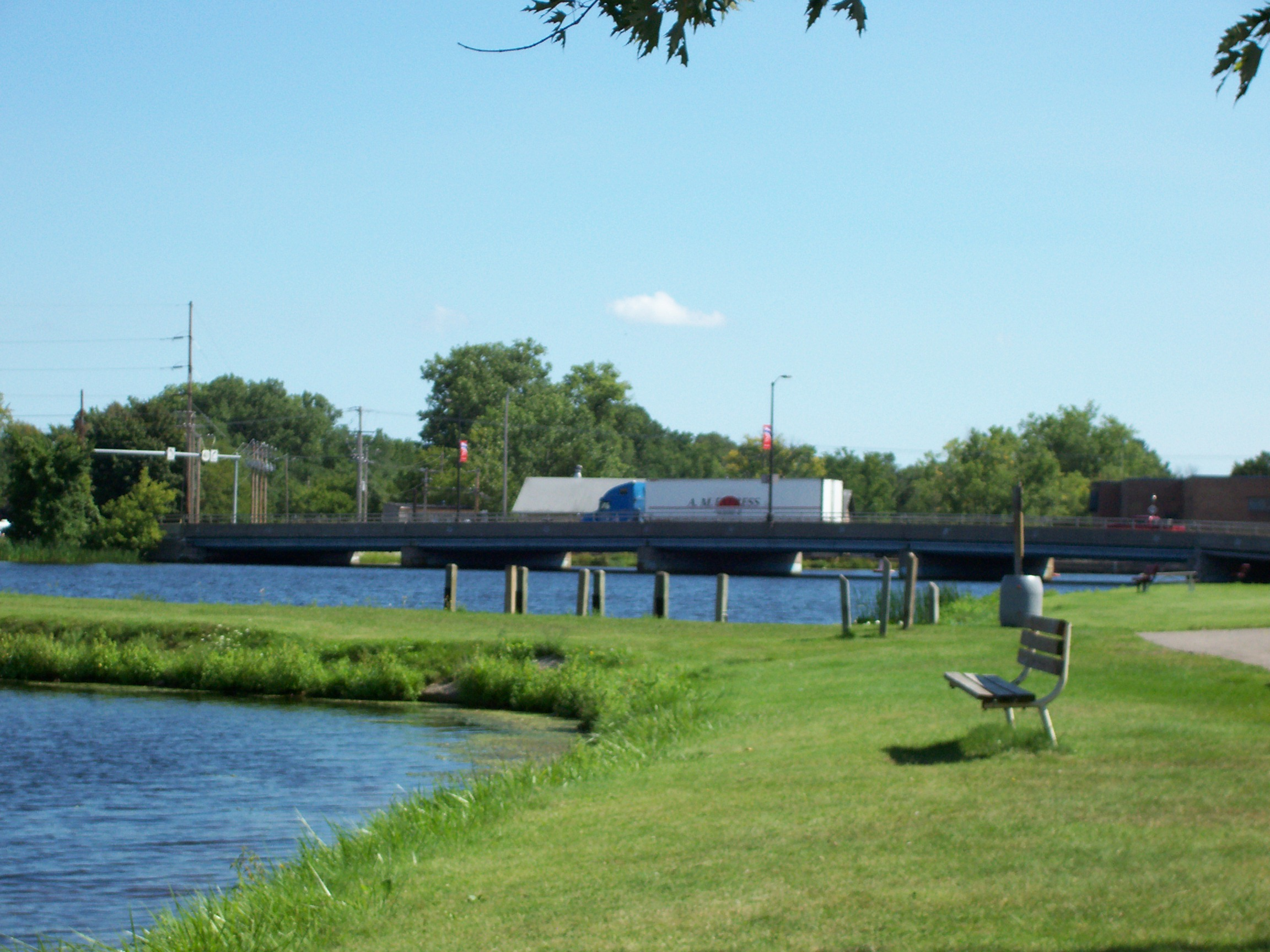 Looking east at the U.S. Route 41 bridge over the Peshtigo River from a city park in downtown Peshtigo,Wisconsin, USA.